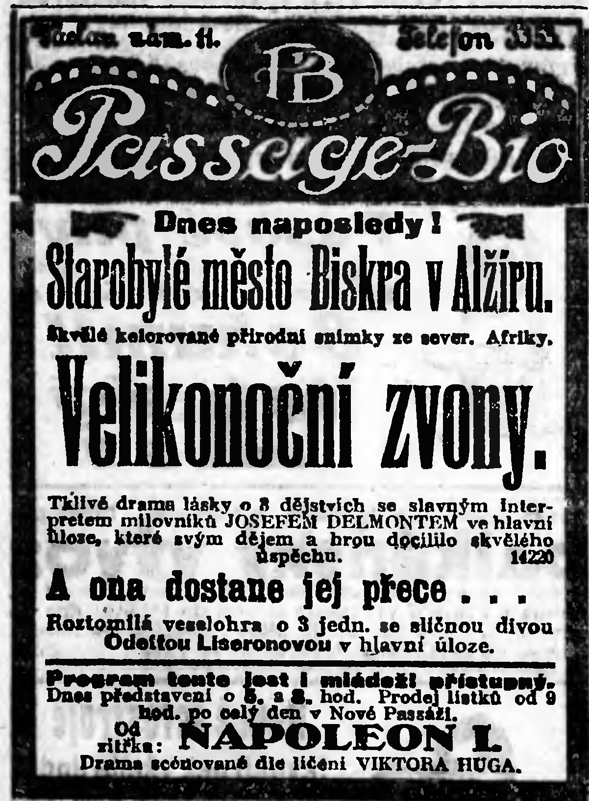 Czech newspaper advertisement, 1914, Joseph Delmont playing in th move